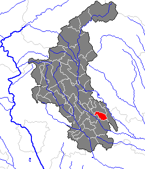 This map shows the area of the Gemeinde (municipality) Oberrettenbach in the Bezirk (district) Weiz, Styria, Austria.